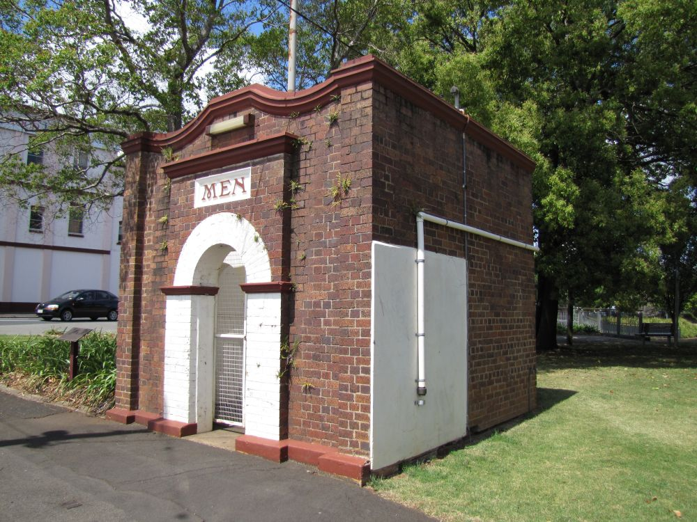 Men's Toilet, Russell Street, Toowoomba (2012), prior to demolition in 2013 and re-construction in 2015